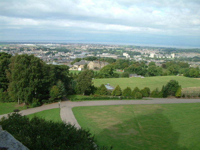 Lancaster taken from the Ashton Memorial in Williamson Park.